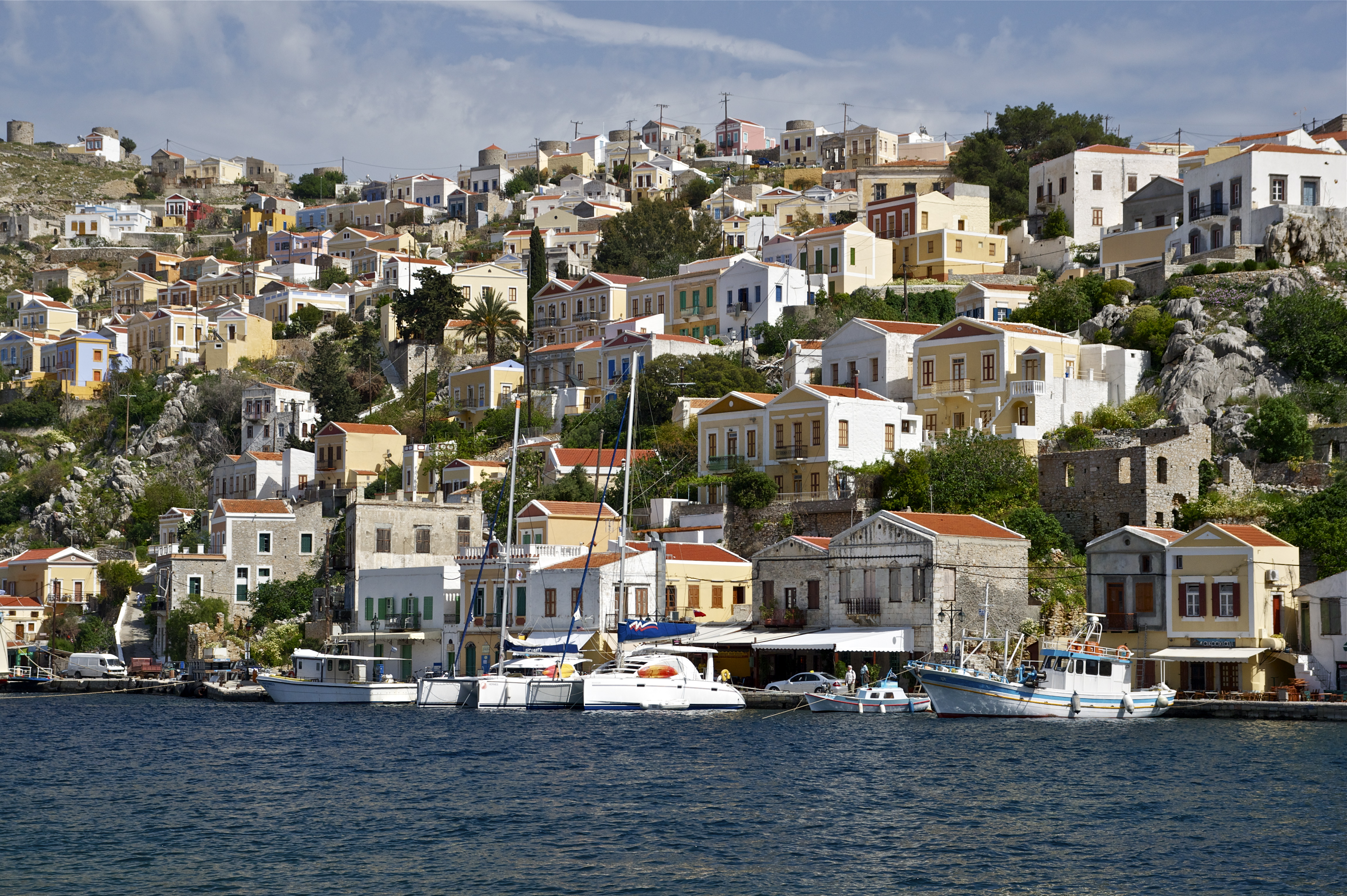 Some typical colorful houses in front of the harbour of Symi, Symi island, Greece.